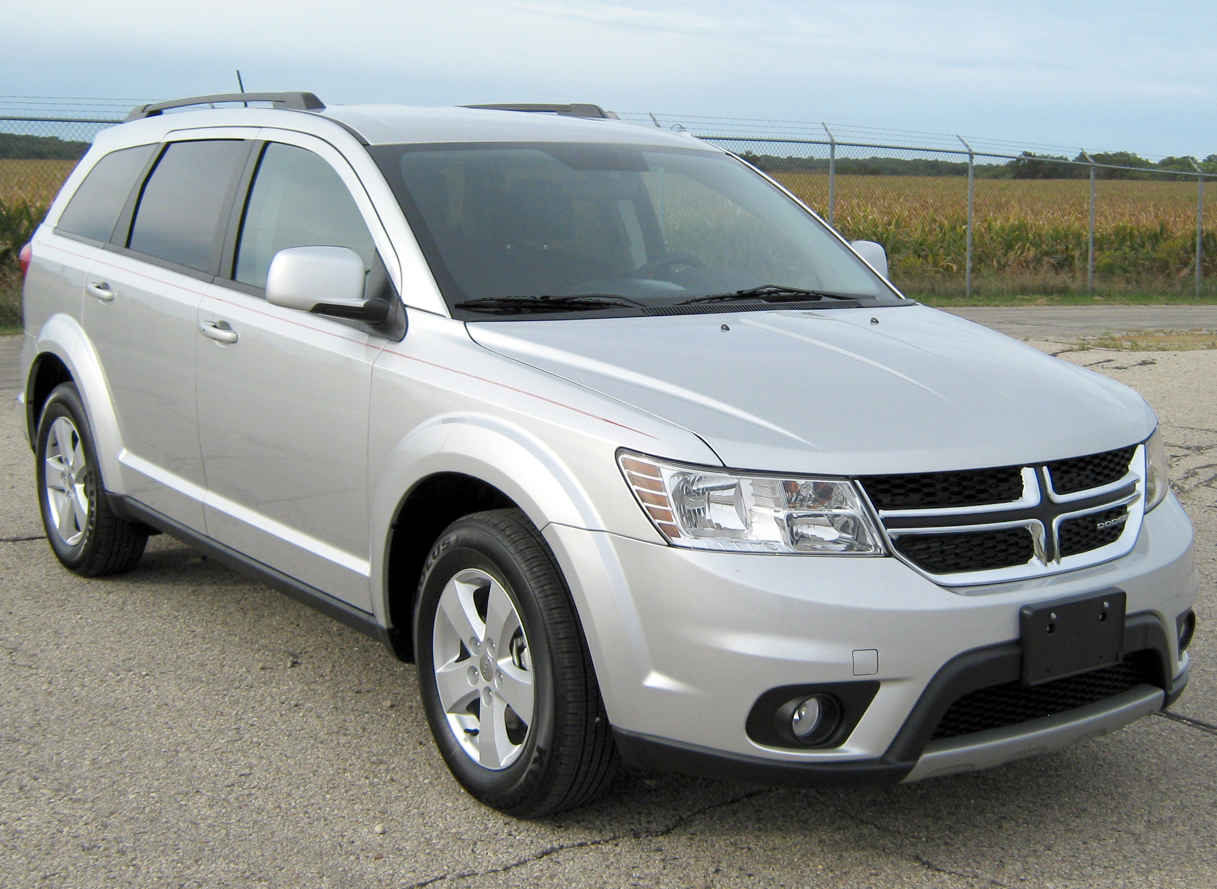 2012 Dodge Journey SXT photographed in USA.